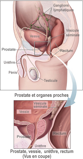 Prostate and bladder, sagittal section.